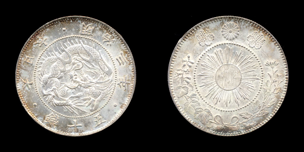 50sen-M3